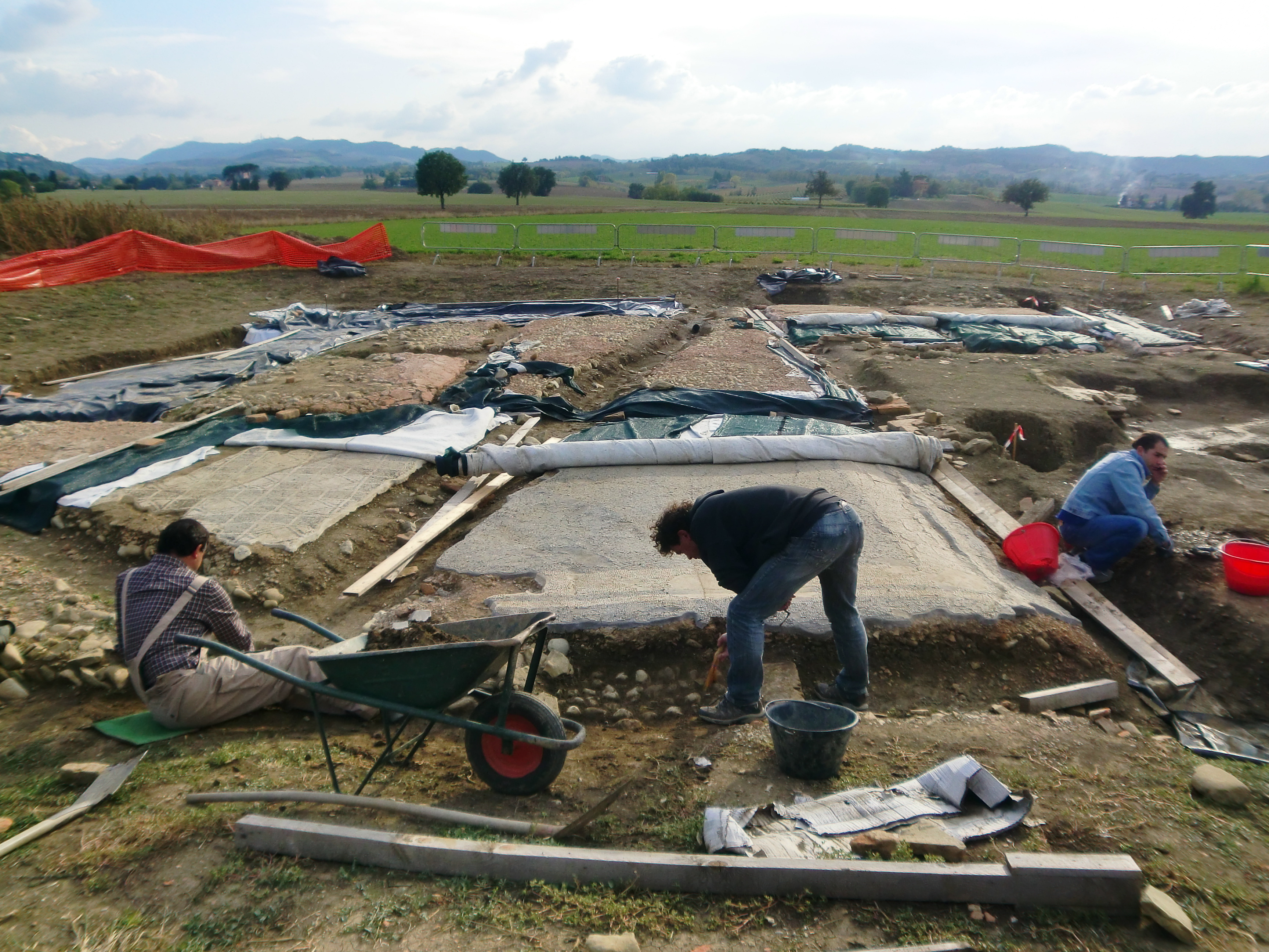 Archeological excavations of the Roman domus with mosaics in Claterna, near Ozzano dell'Emilia, Italy.